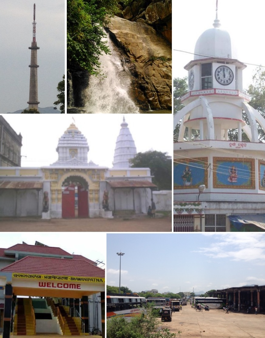 Bhawanipatna